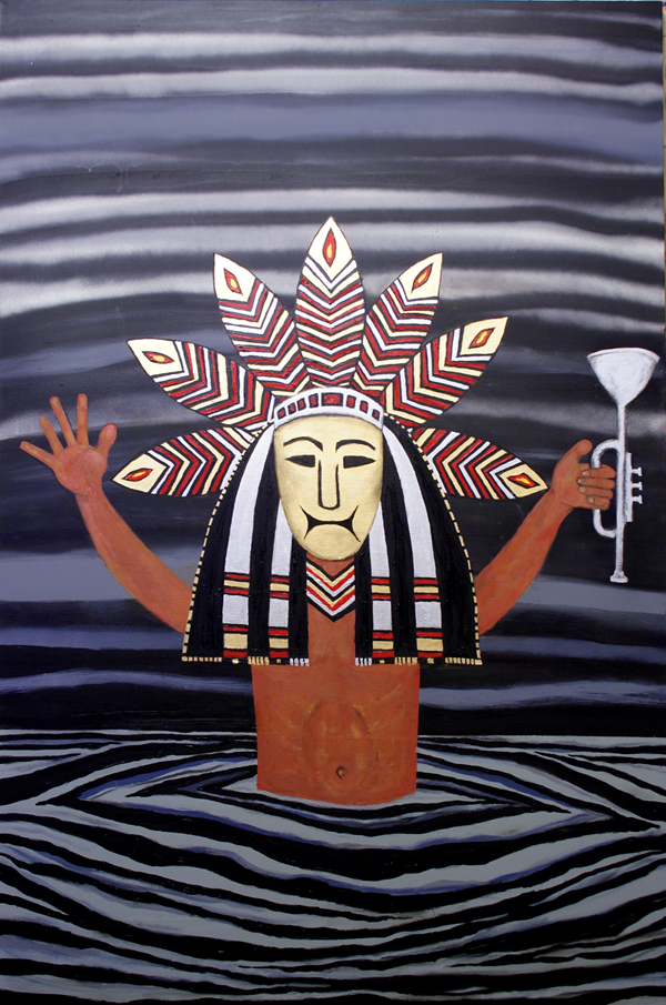 Fat Tuesday is an original painting created by me (Don Leicht)